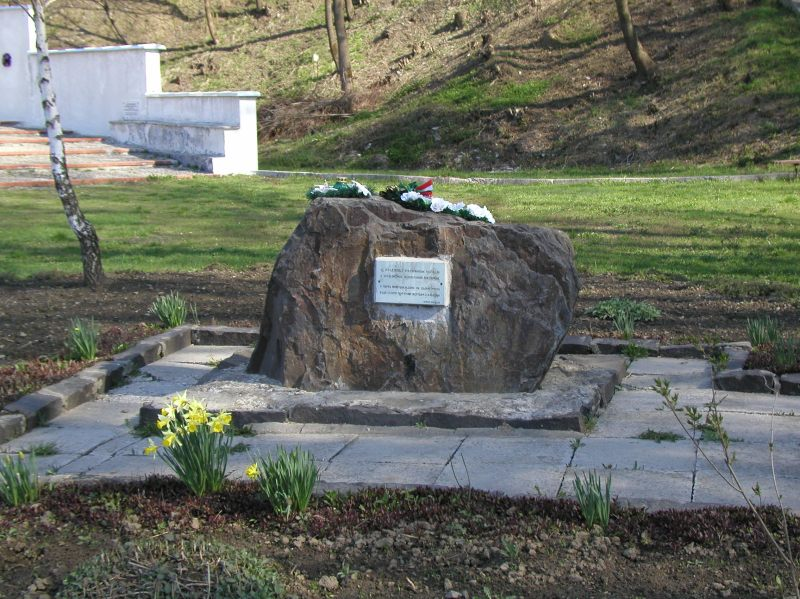 Memorial for Stalinism—communism victims, Svaliava, Ukraina, 2004